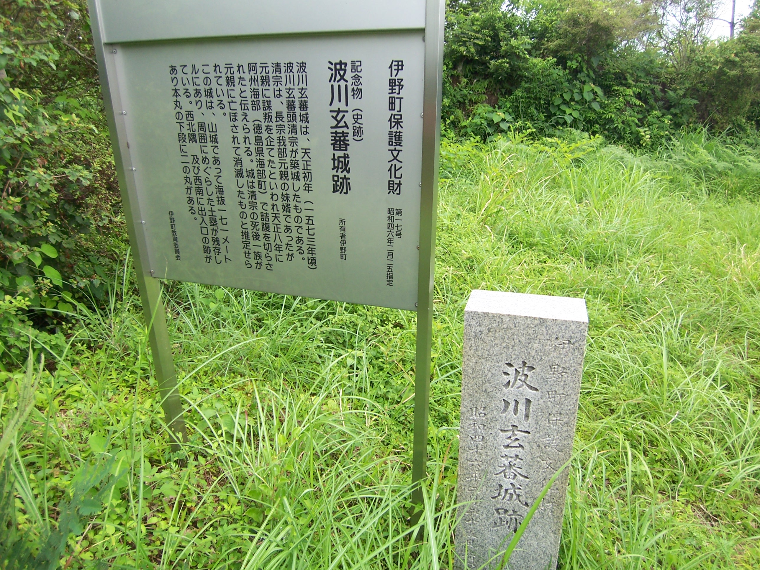 Hakawa Genba-Jou, Ino-town, Kochi, Japan